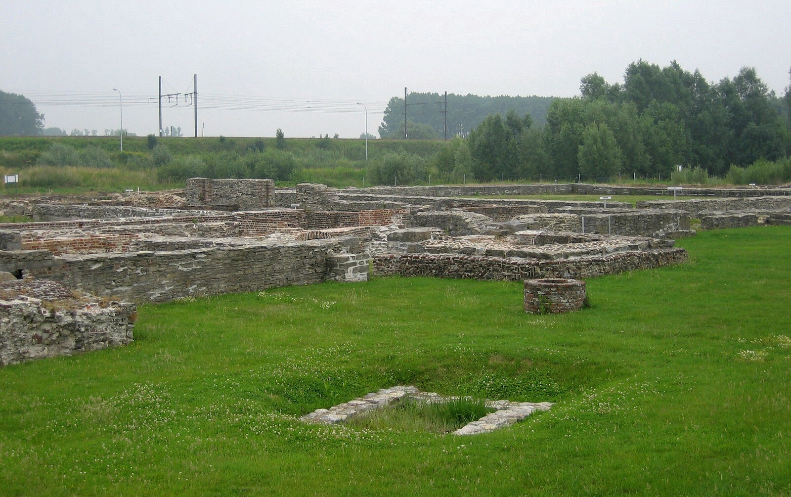 View of the ruins of the abbey of St. Salvator, Ename, Belgium. Picture by Tim Bekaert (July 12, 2005)